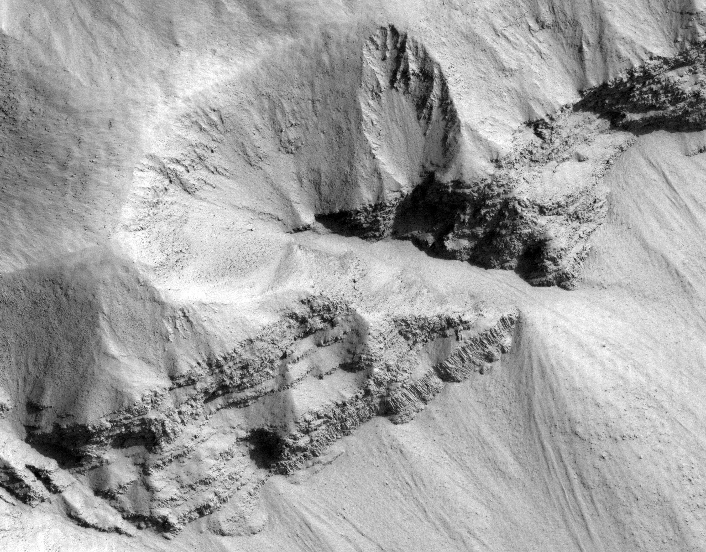 Columnar jointing displayed in outcrops in unnamed impact crater on Mars. Marte Vallis region. Image courtesy High Resolution Imaging Experiment HiRISE, NASA-University of Arizona. Horizontal dimension is ~1 kilometer.